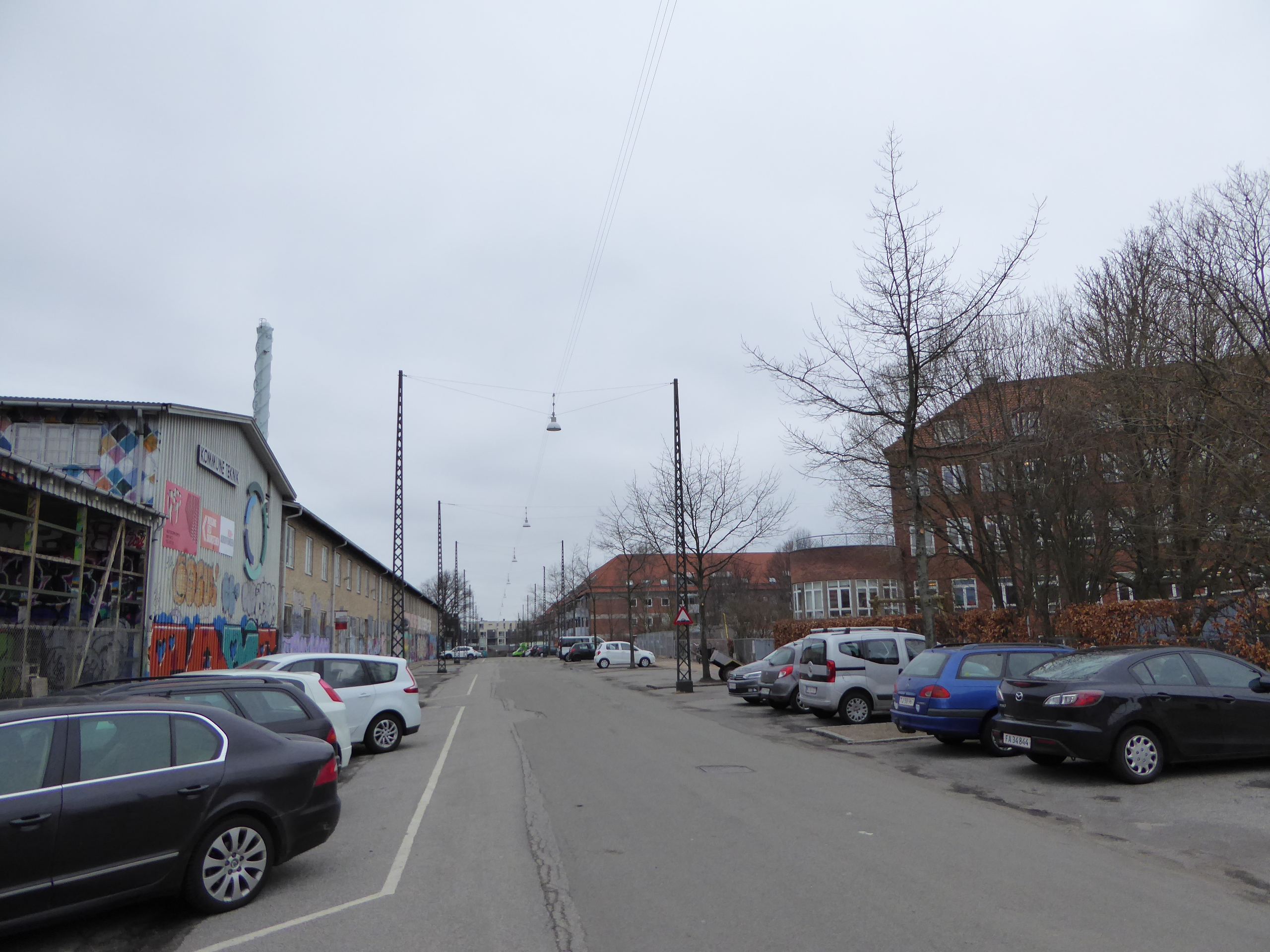 The street Ragnhildgade in Østerbro in Copenhagen.